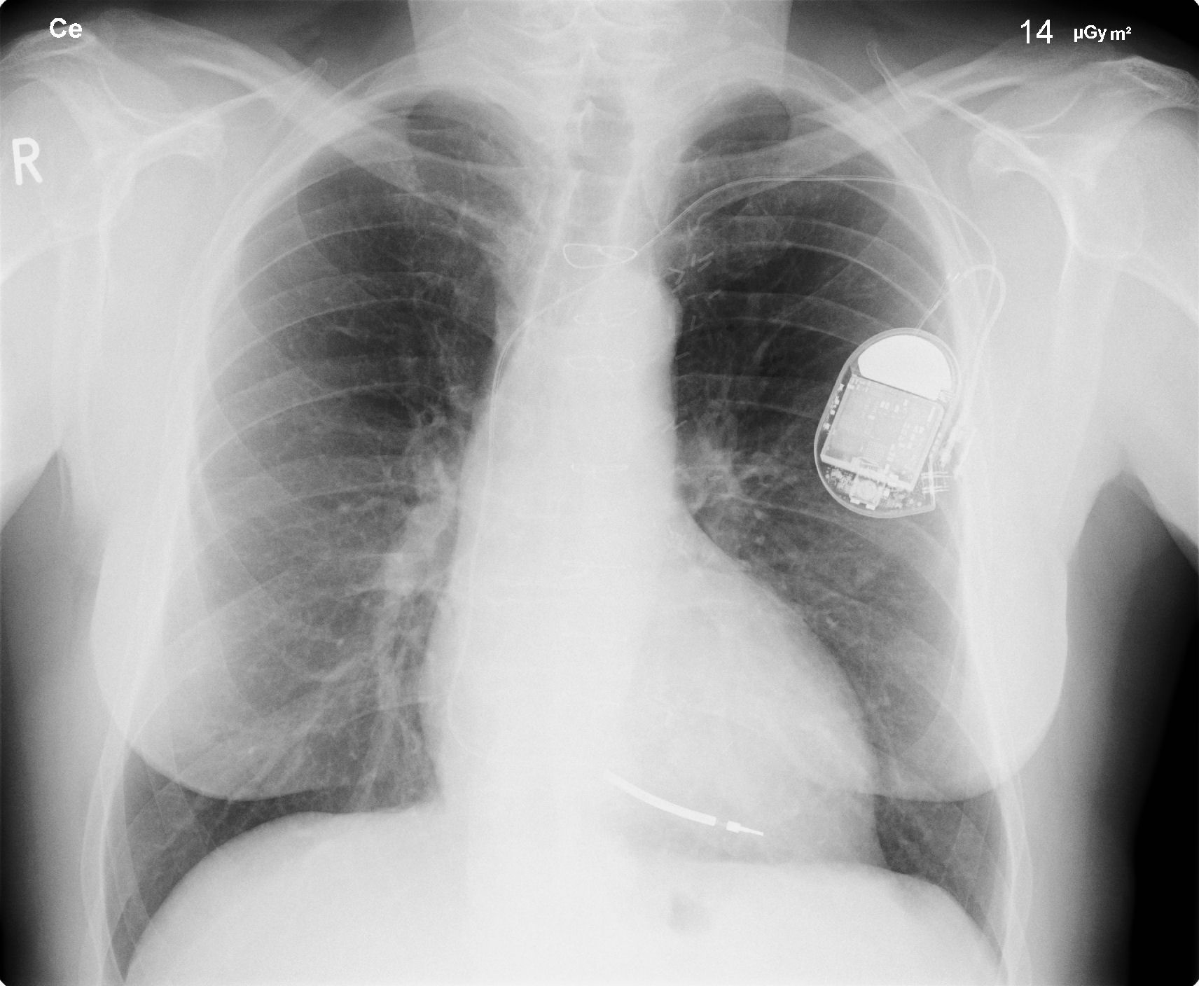 Conventional X-ray|X-ray of an implantable cardioverter-defibrillator (ICD)